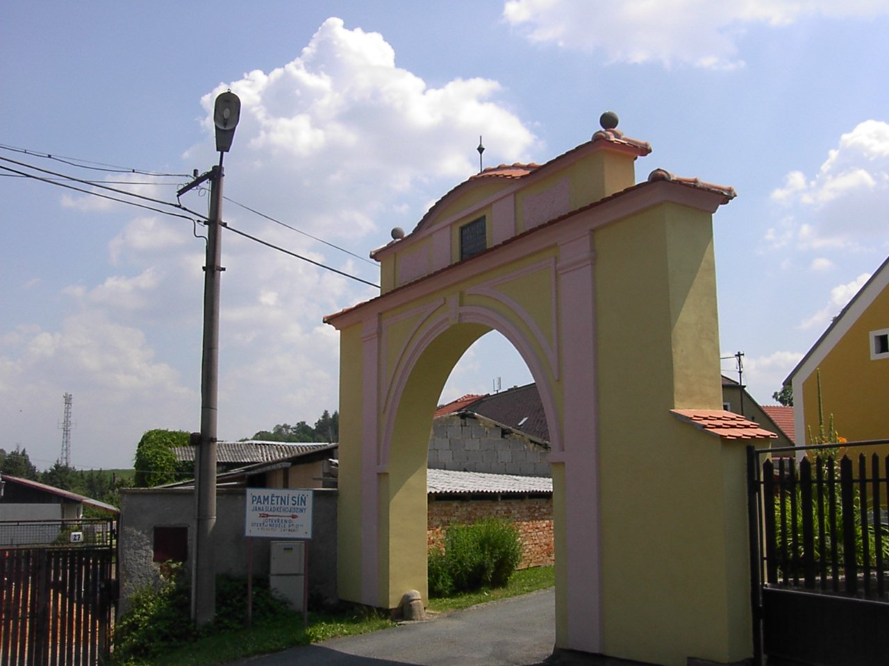 Gate of Kozina's farm in Újezd, Domažlice District Czech Republic.